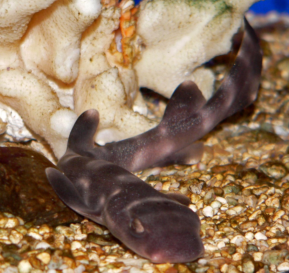 Photo of Atelomycterus marmoratus at Birch Aquarium